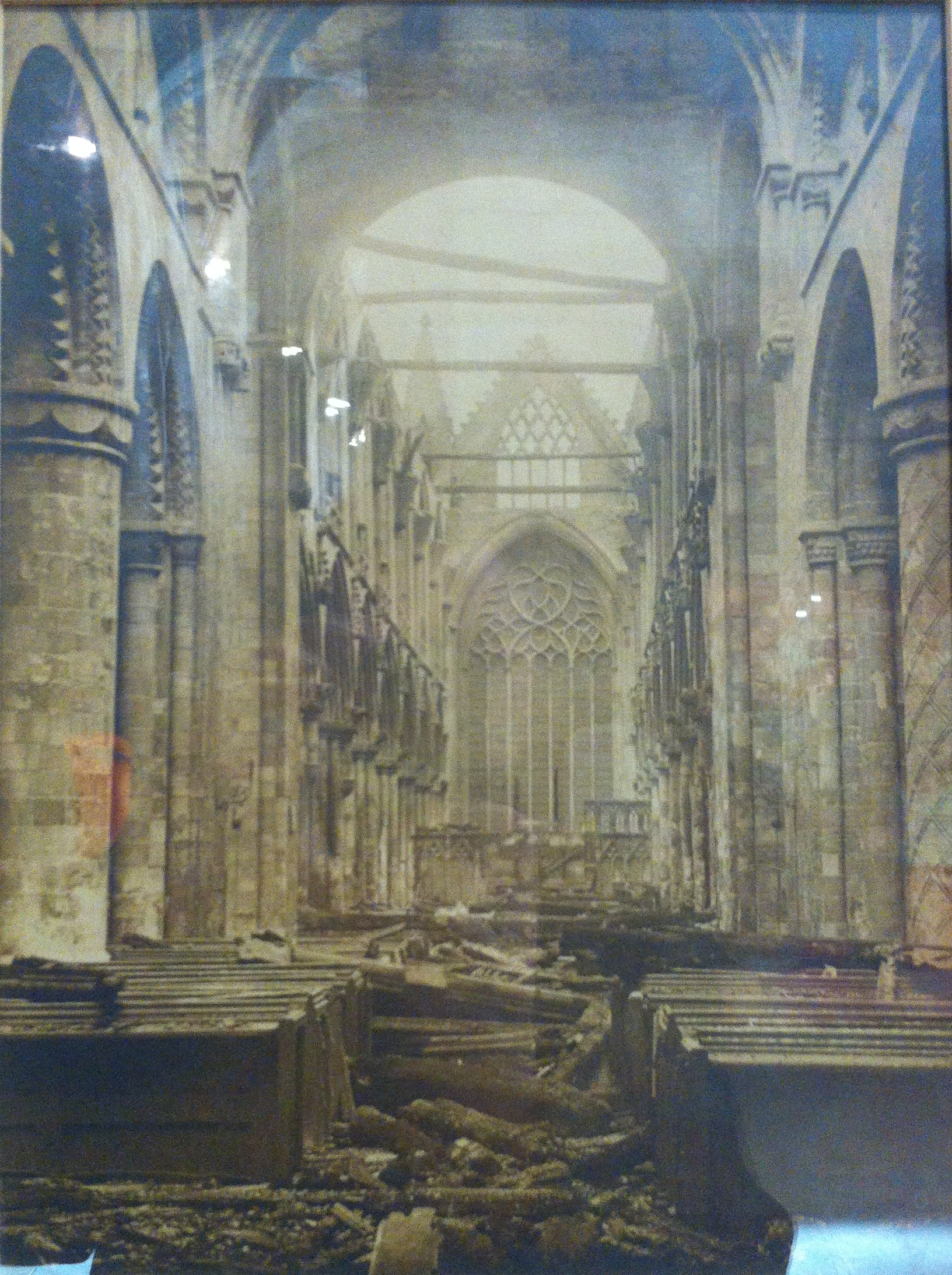 From a picture hanging in Selby Abbey